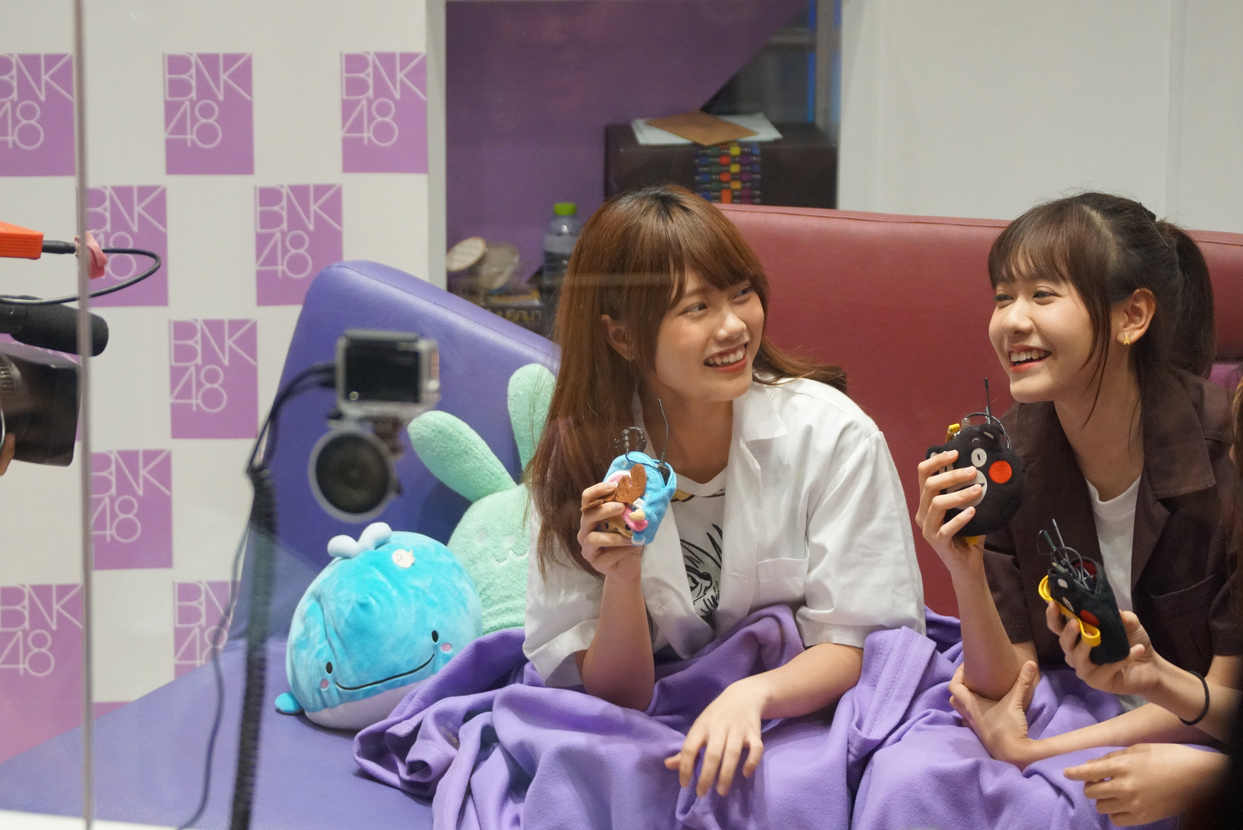 Music and Noey at BNK48 Digital live studio 13 DEC 2017 Emquatier shopping mall